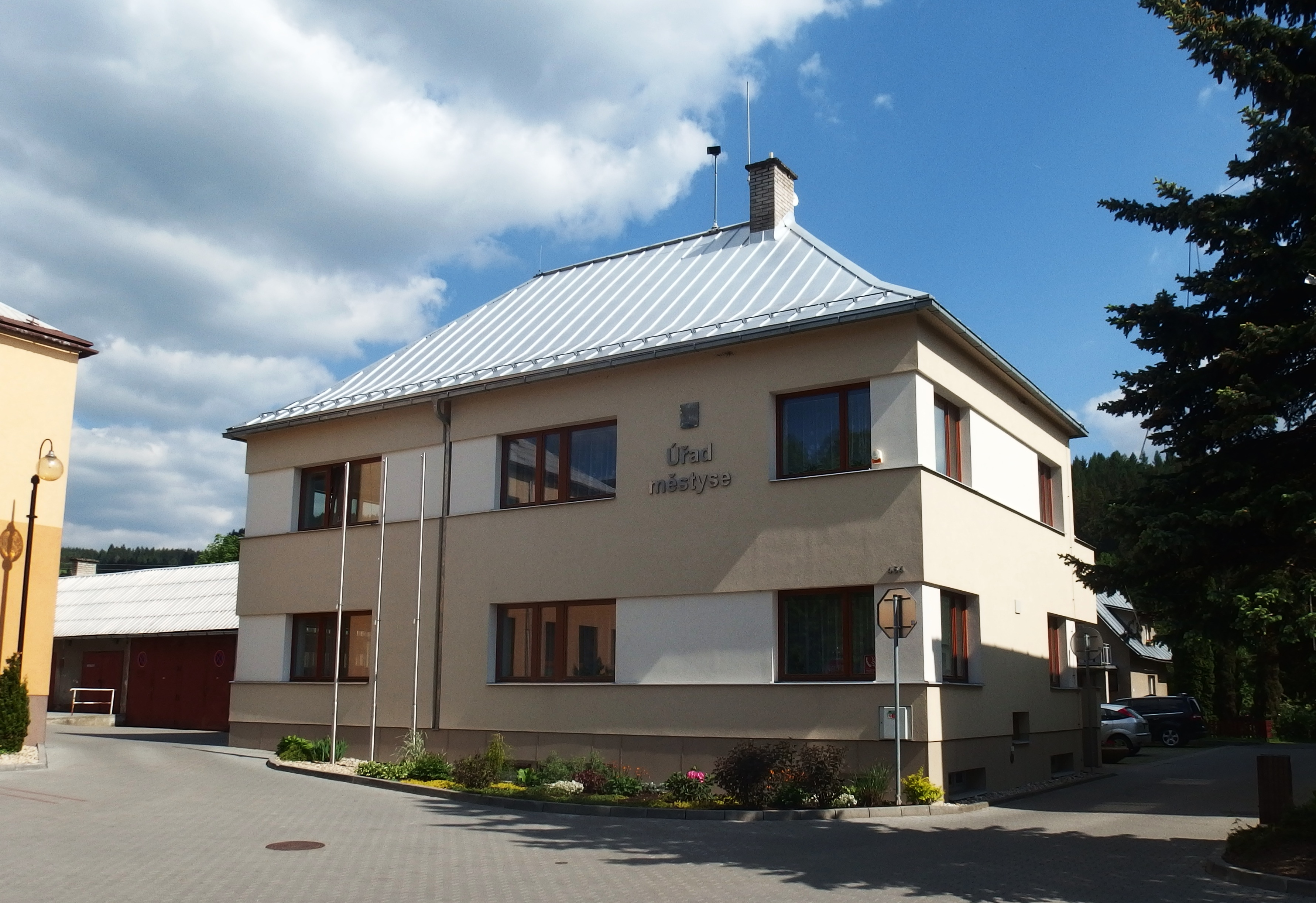 Nový Hrozenkov, Vsetín District, Czech Republic.